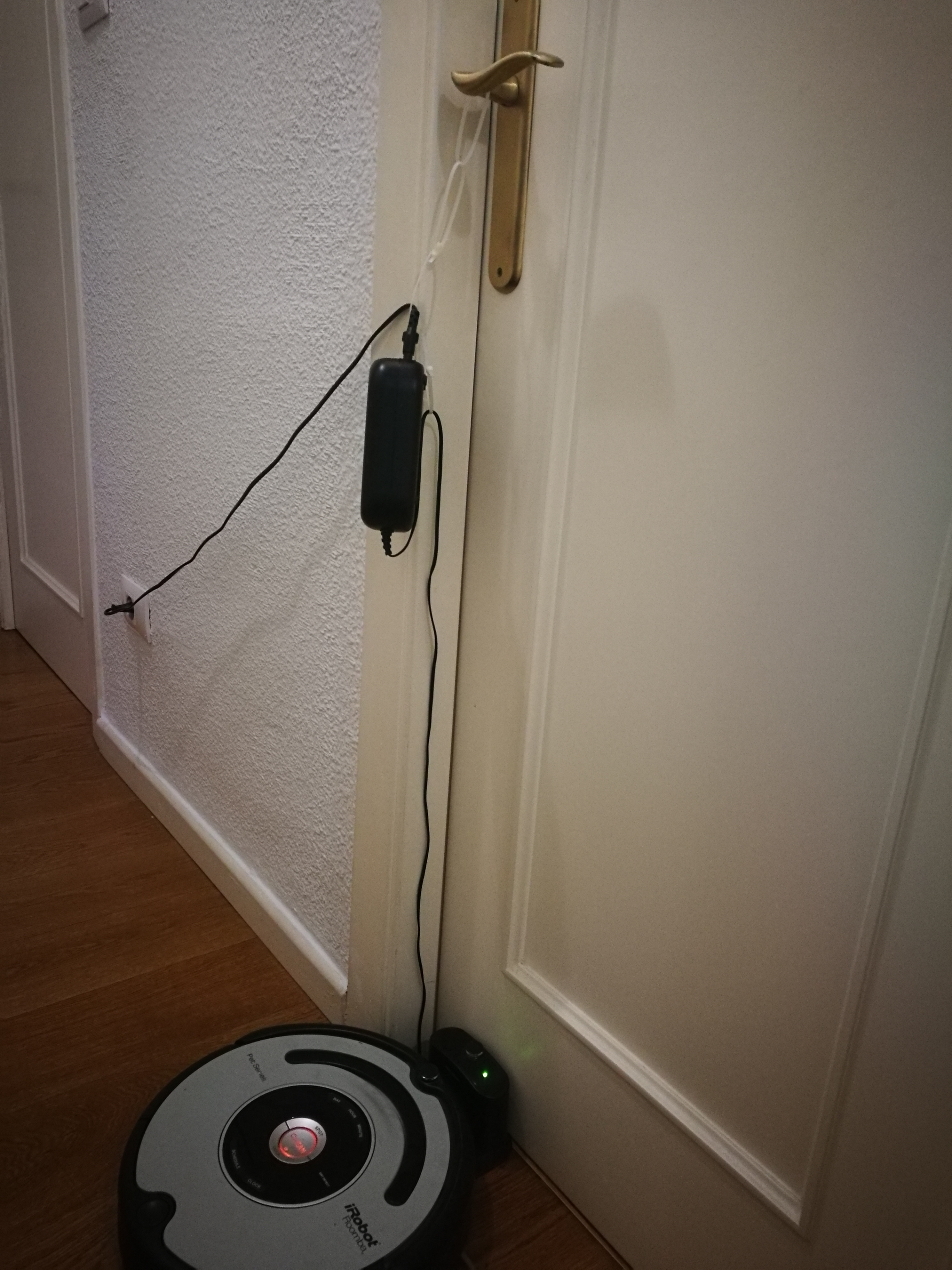 Roomba vacuum robot recharging in a corridor between rooms doors. It does not include wireless recharge (Qi or similar).